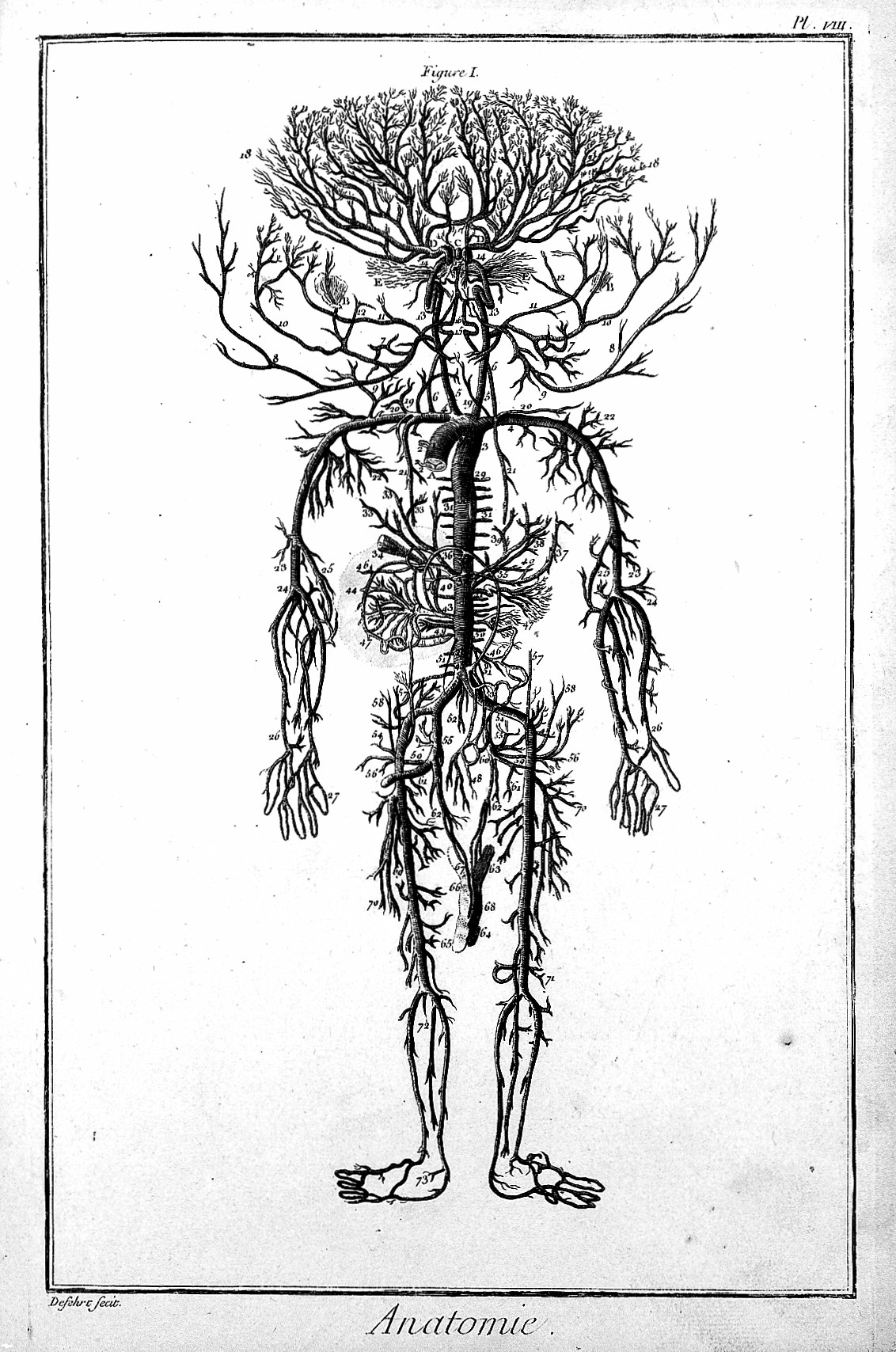 arteries Rare Books Keywords: anatomy (male), 18th century; Denis Diderot; Jean le Rond d'Alembert; Defehrt